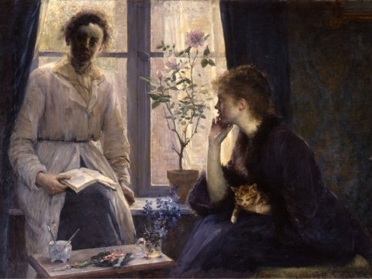 Five o'clock tea (cropped)